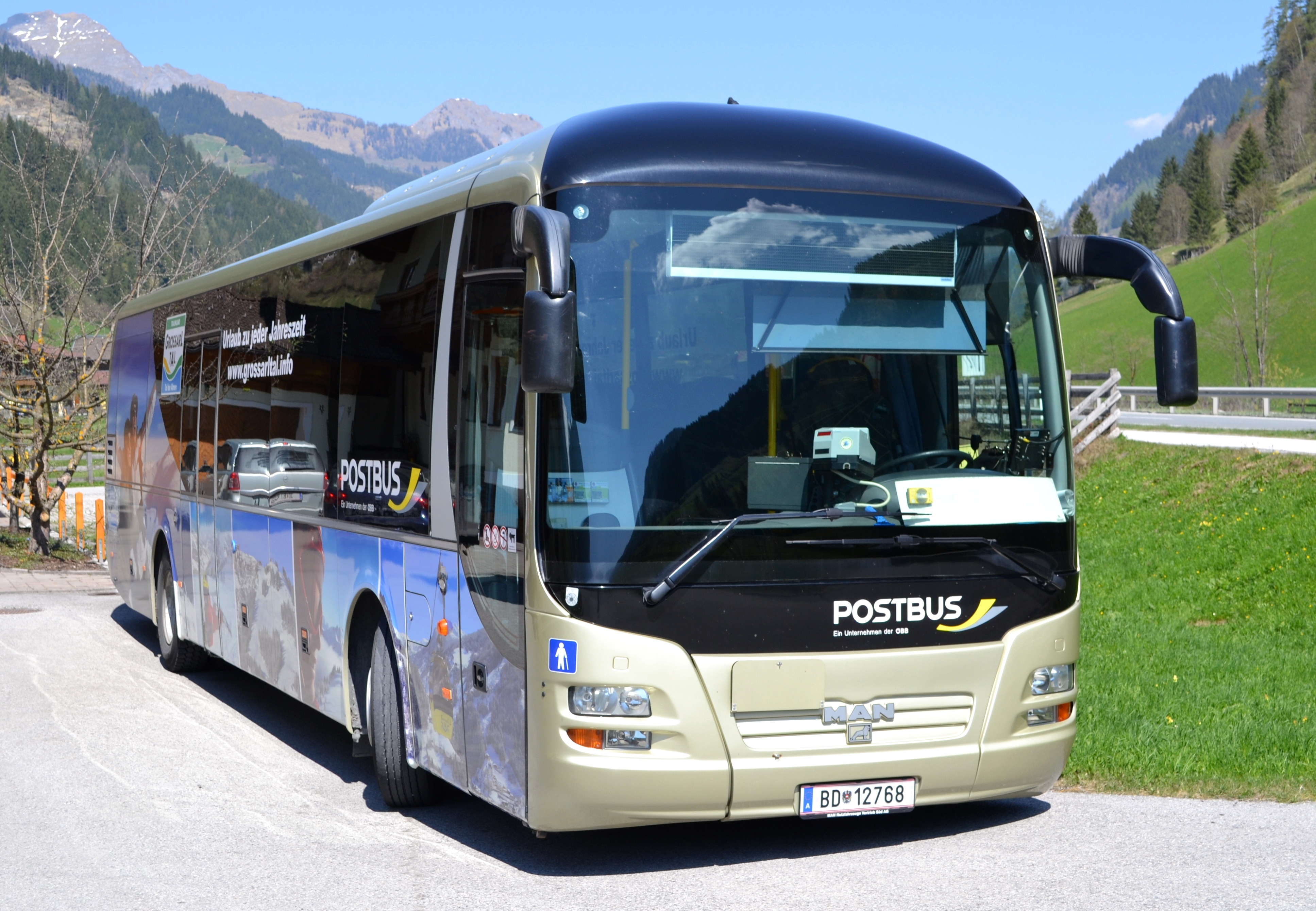 MAN Lion's Regio bus (reg. BD 12768) in Austria. ÖBB Postbus GmbH from Wien operator.